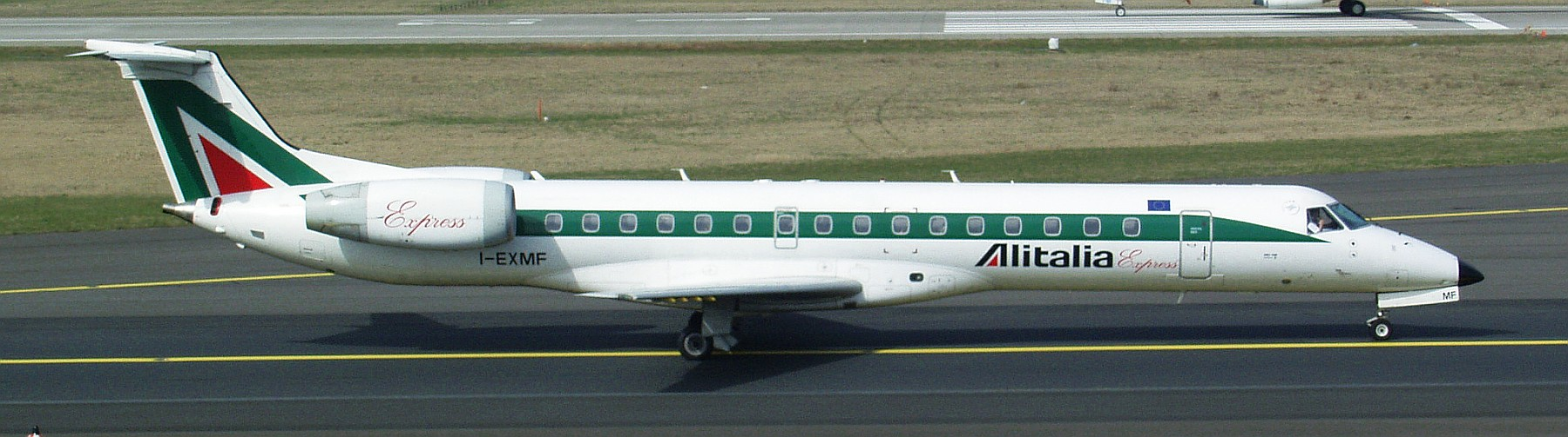 Embraer ERJ 145 (I-EXMF) of Alitalia Express at Düsseldorf airport